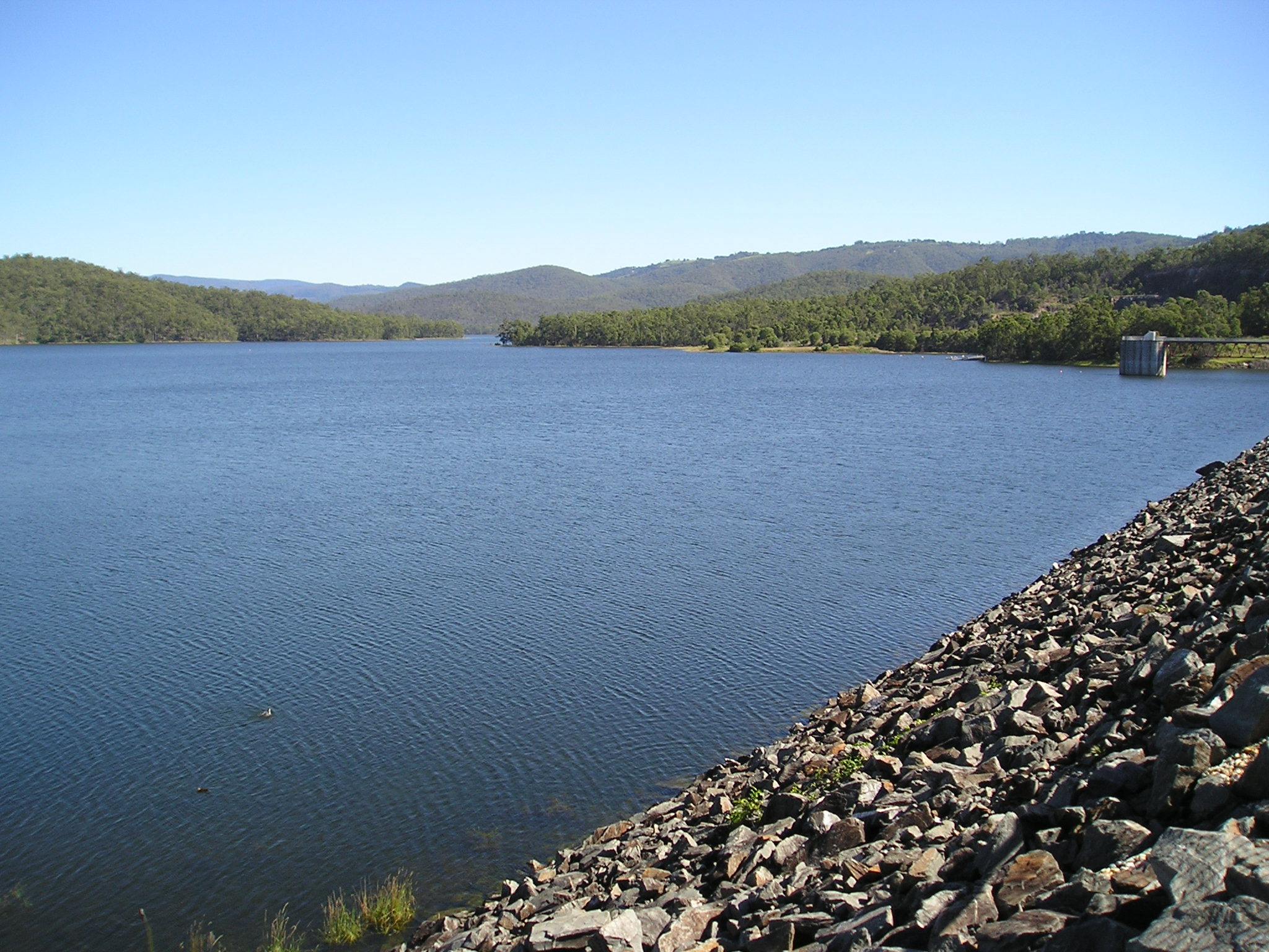 Photograph of Hinze Dam on the Gold Coast at full capacity. Taken by myself (Triki-wiki) from the dam wall looking southwest on April 9, 2006.